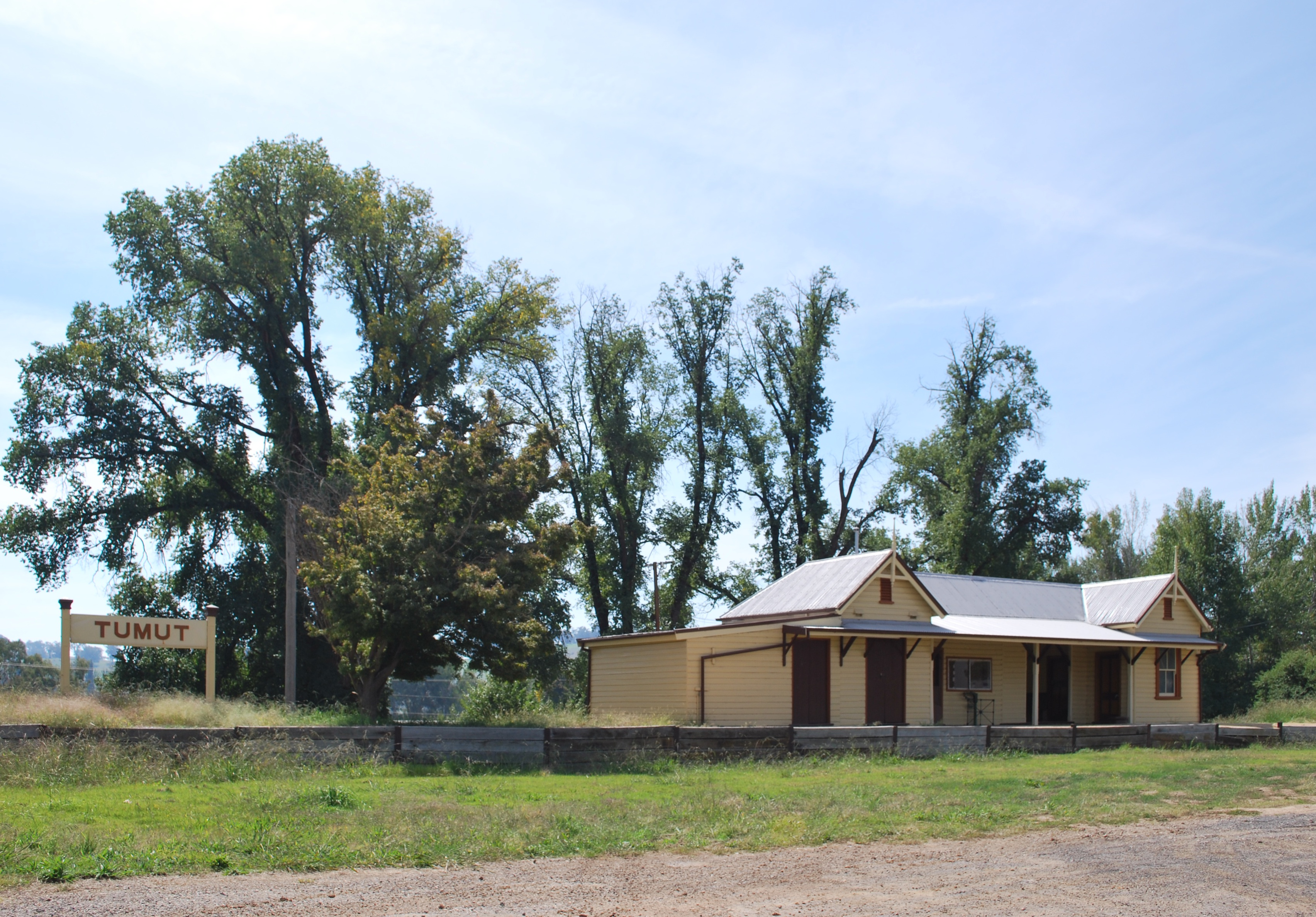 Former train station at Tumut, New South Wales